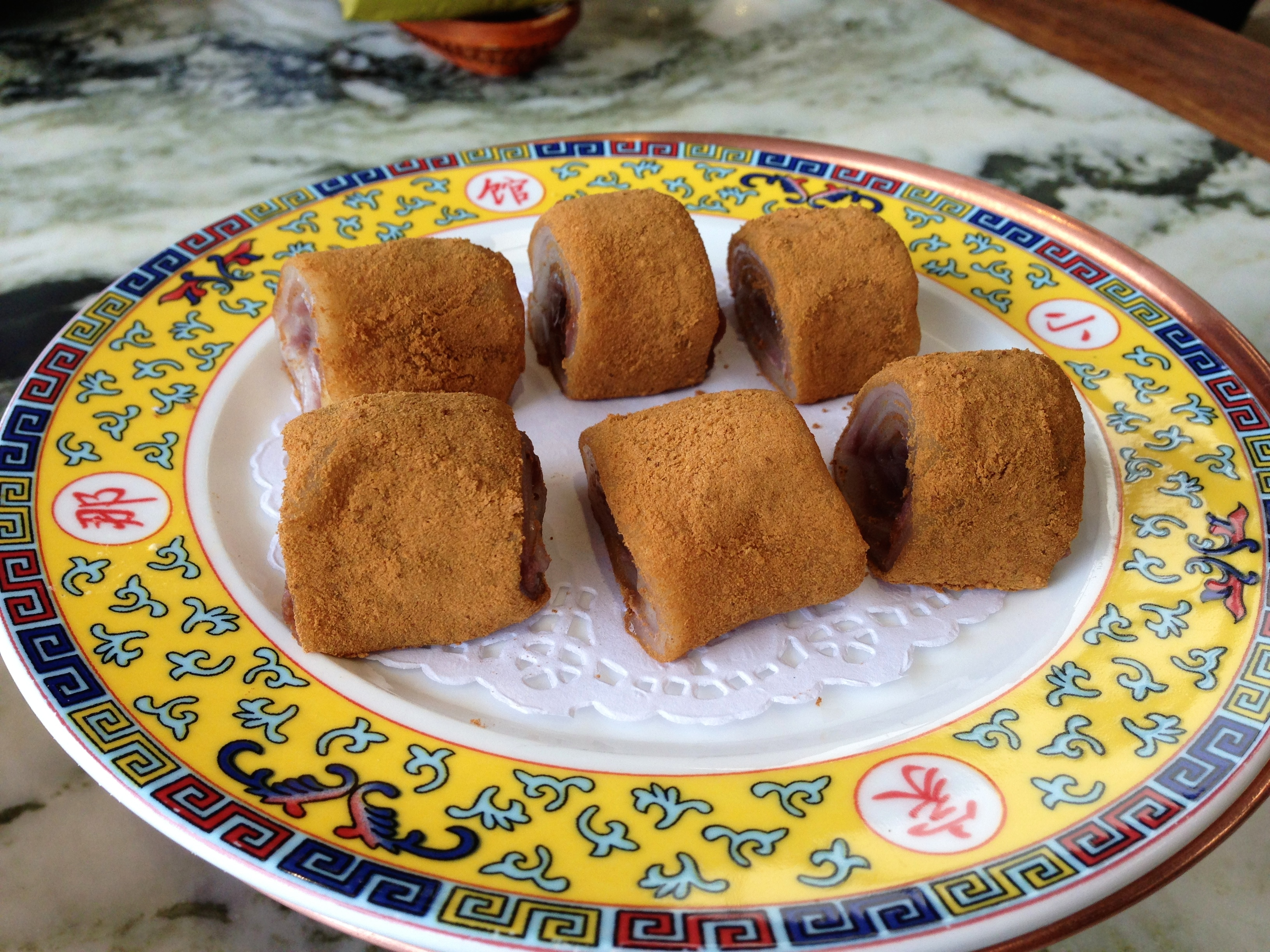 Lyu Da Gun of Beijing